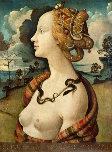 Simonetta Vespucci as "Cleopatra."